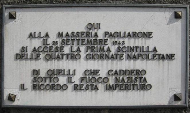 Memorial inscription of the Four days of Naples near the masseria Pagliarone in via Belvedere.